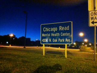 Chicago-Read Mental Health Center sign